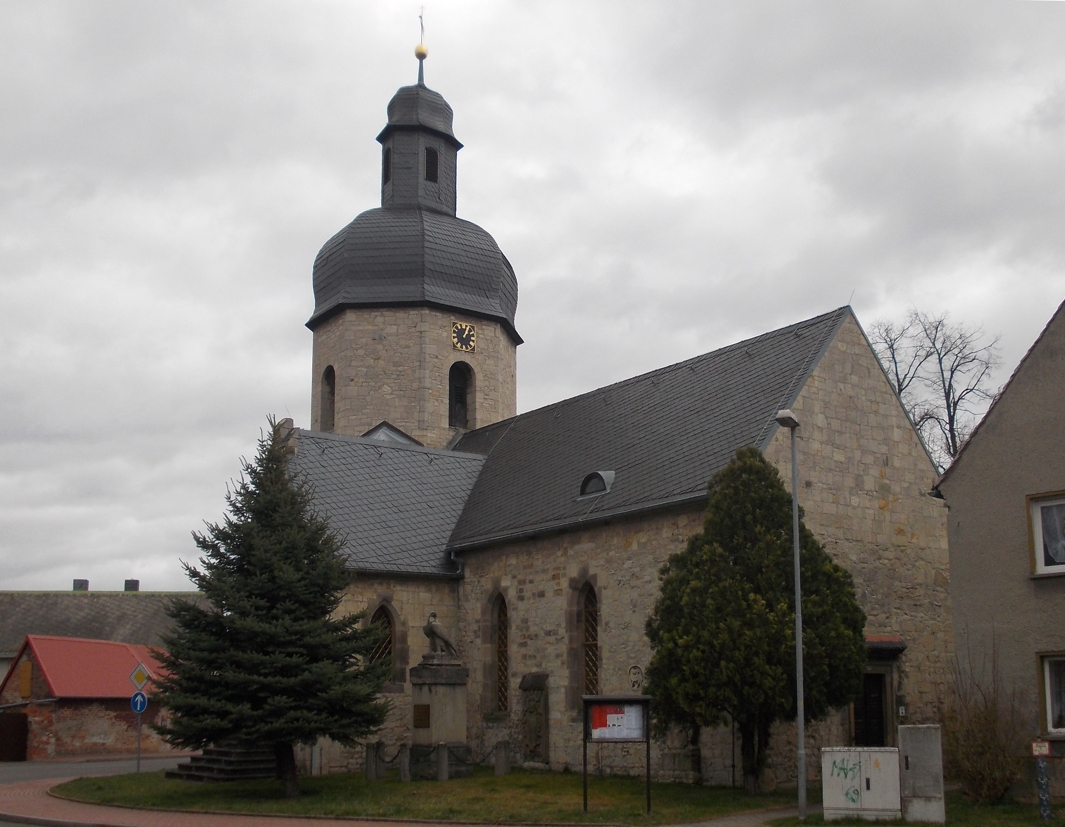 St. Henry's Church in Rossbach (Braunsbedra, district: Saalekreis, Saxony-Anhalt)